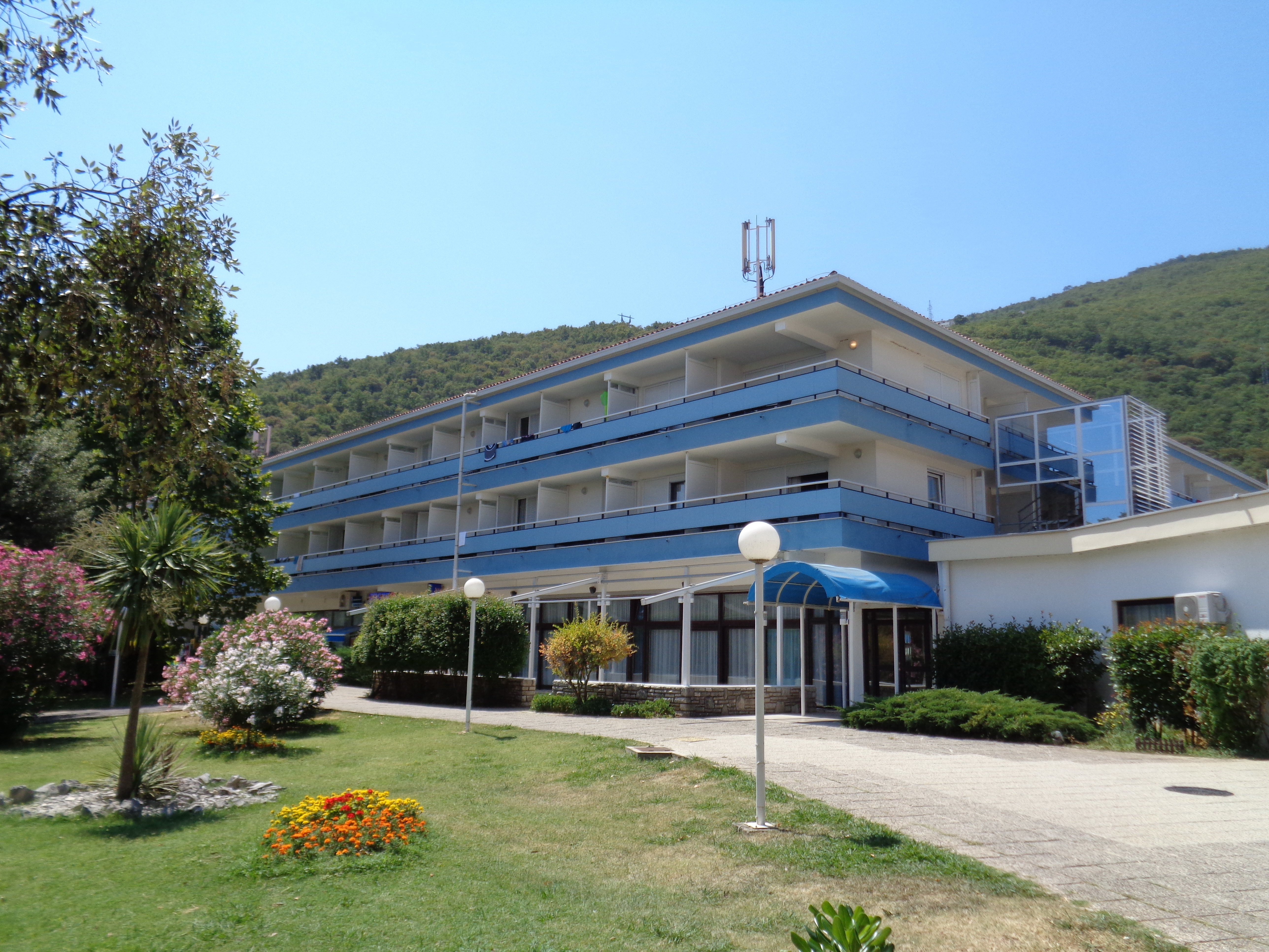 "Marina" Hotel in Mošćenička Draga, Croatia